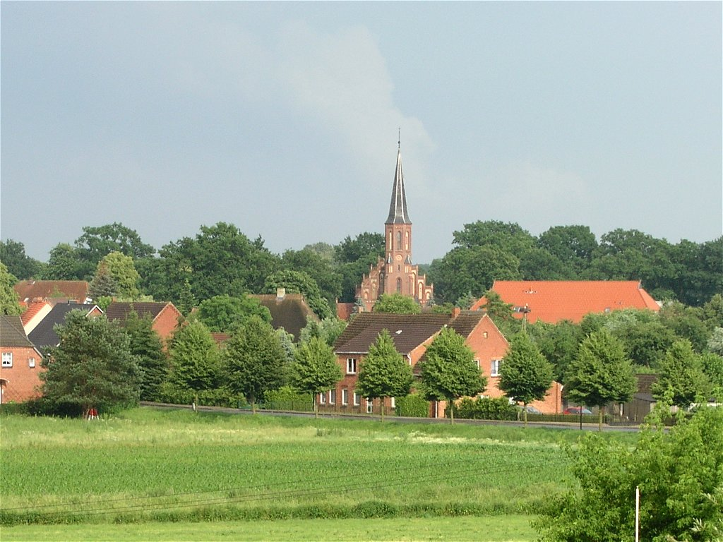 View of Banzkow in Mecklenburg-Western Pomerania, Germany